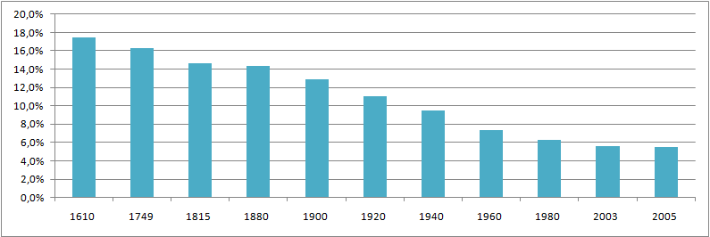 Swedes as a percentage of Finland's population. Finland was a part of Sweden until 1809 when it was conquered by the Russian Empire and became an autonomous grand duchy. Finland gained independence after the Russian revolution 1917. Swedish and Finnish have equal constitutional status.